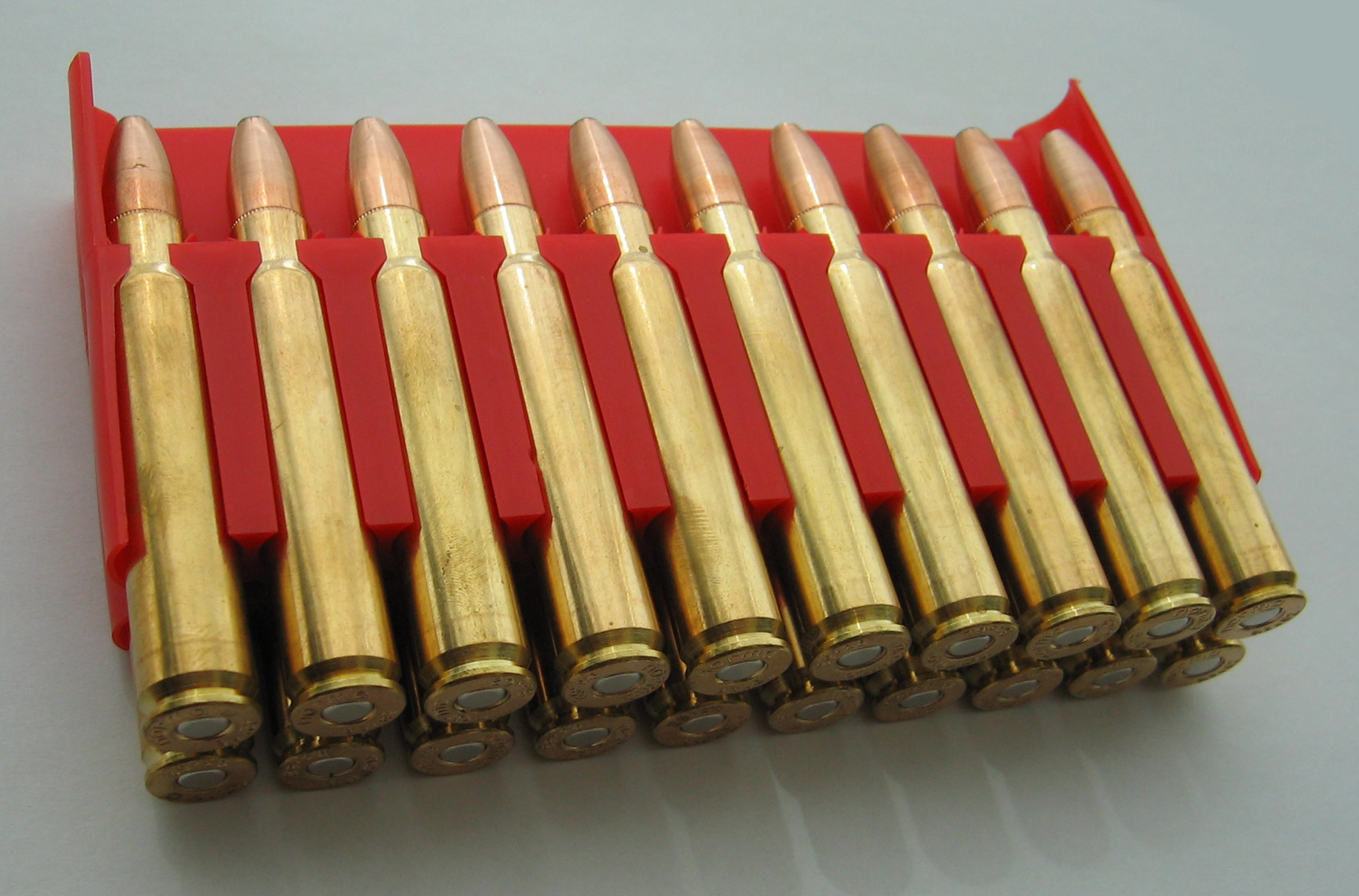 9.3x62 mm Muser cartridge (Norma Oryx Soft point 15g or 232gr) on plastic holder of 20 pcs